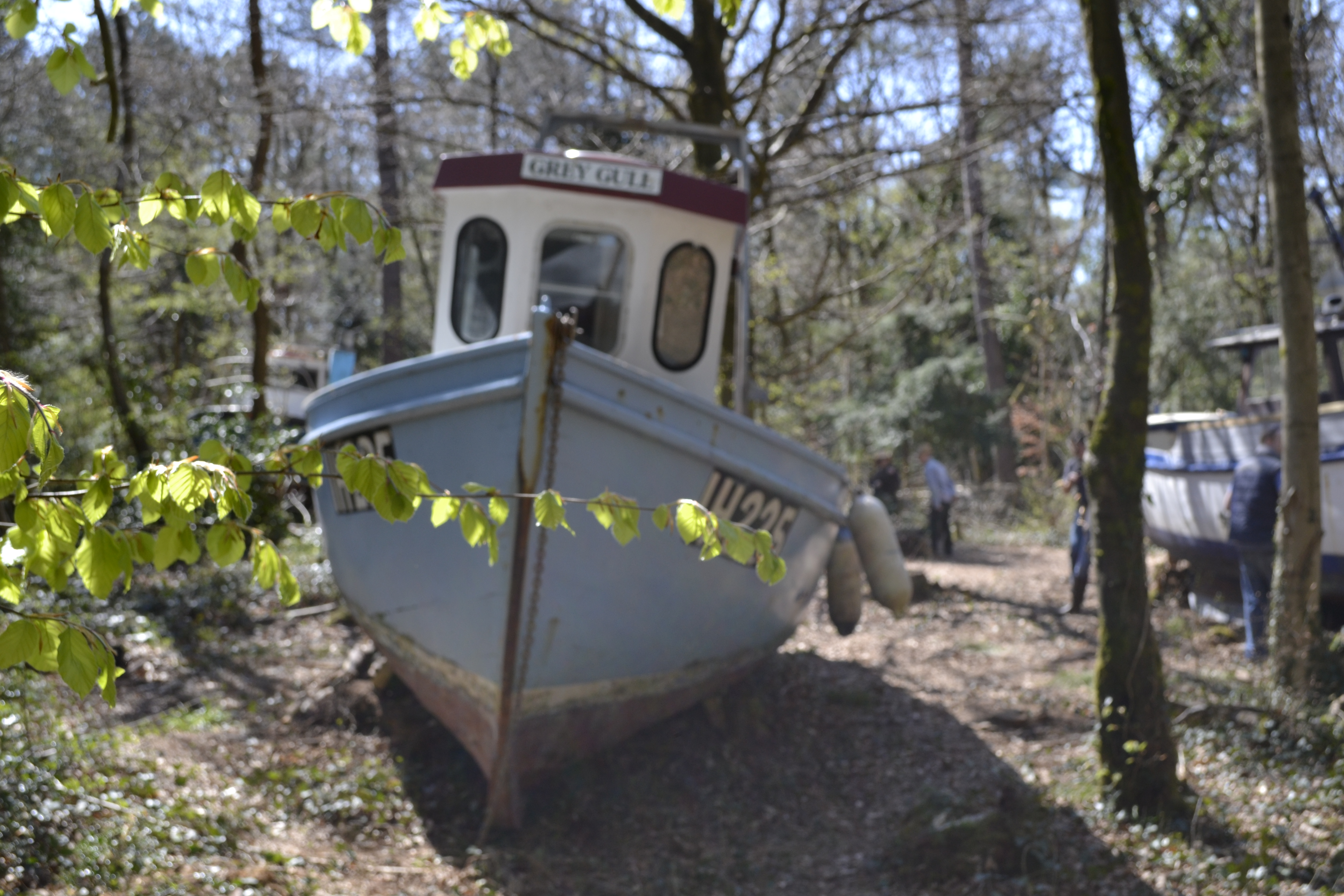 Part of 'Withdrawn' by Luke Jerram consisting of boats stranded high above Avon Gorge in Leigh Woods